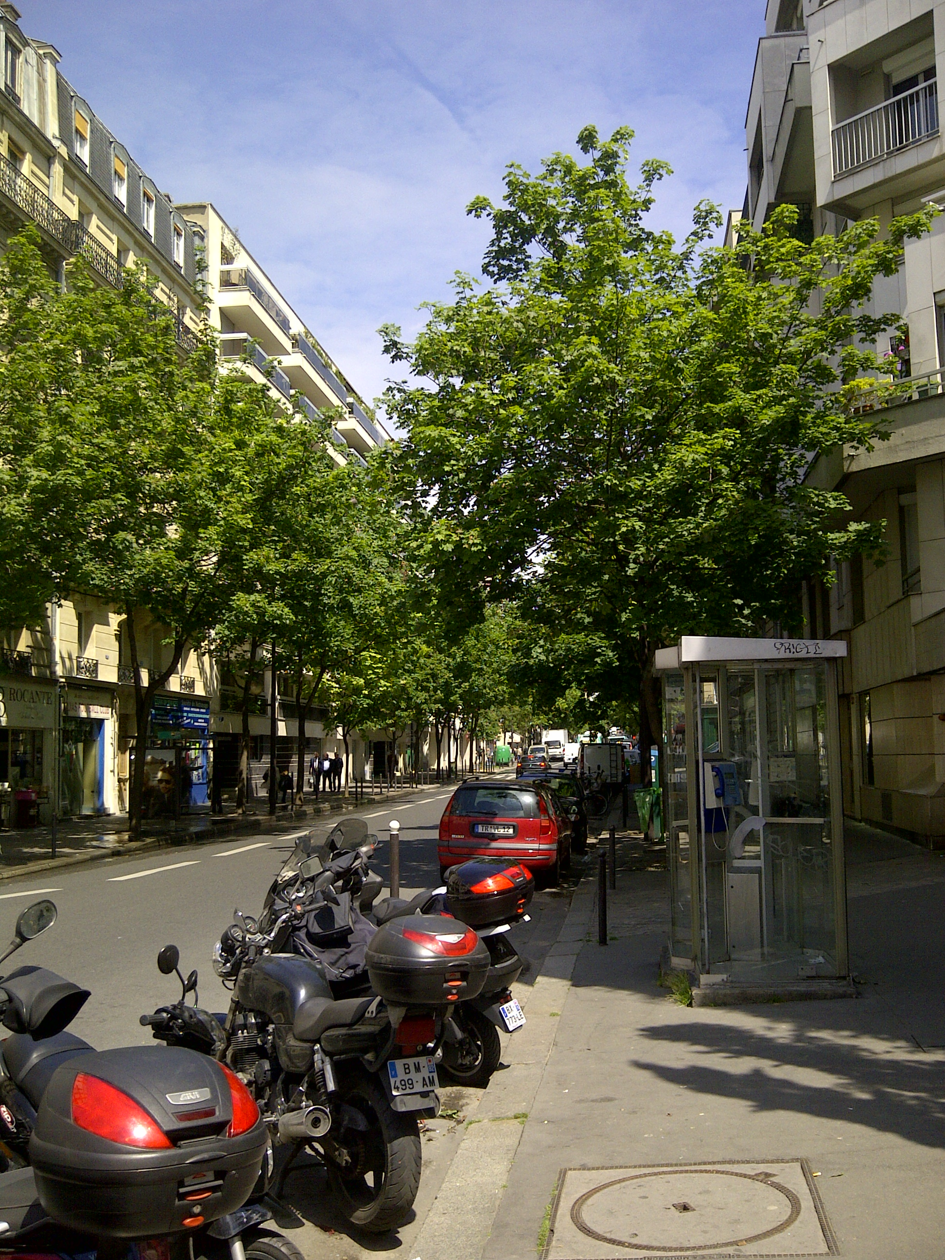 Rue Guy Moquet in Paris' 17th district